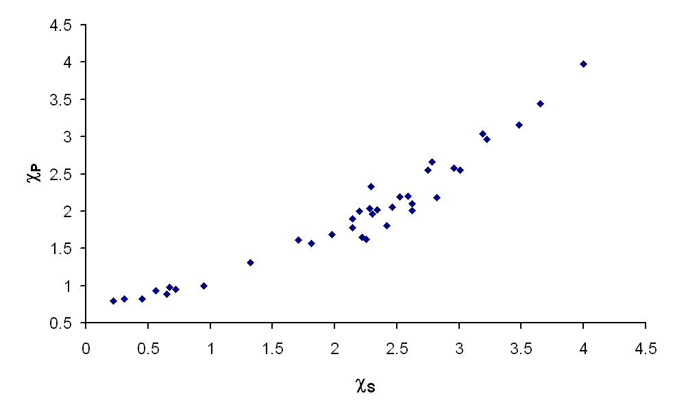 The correlation between Pauling electronegativity (y-axis, revised values) and Sanderson electronegativity (x-axis, in arbitrary units)